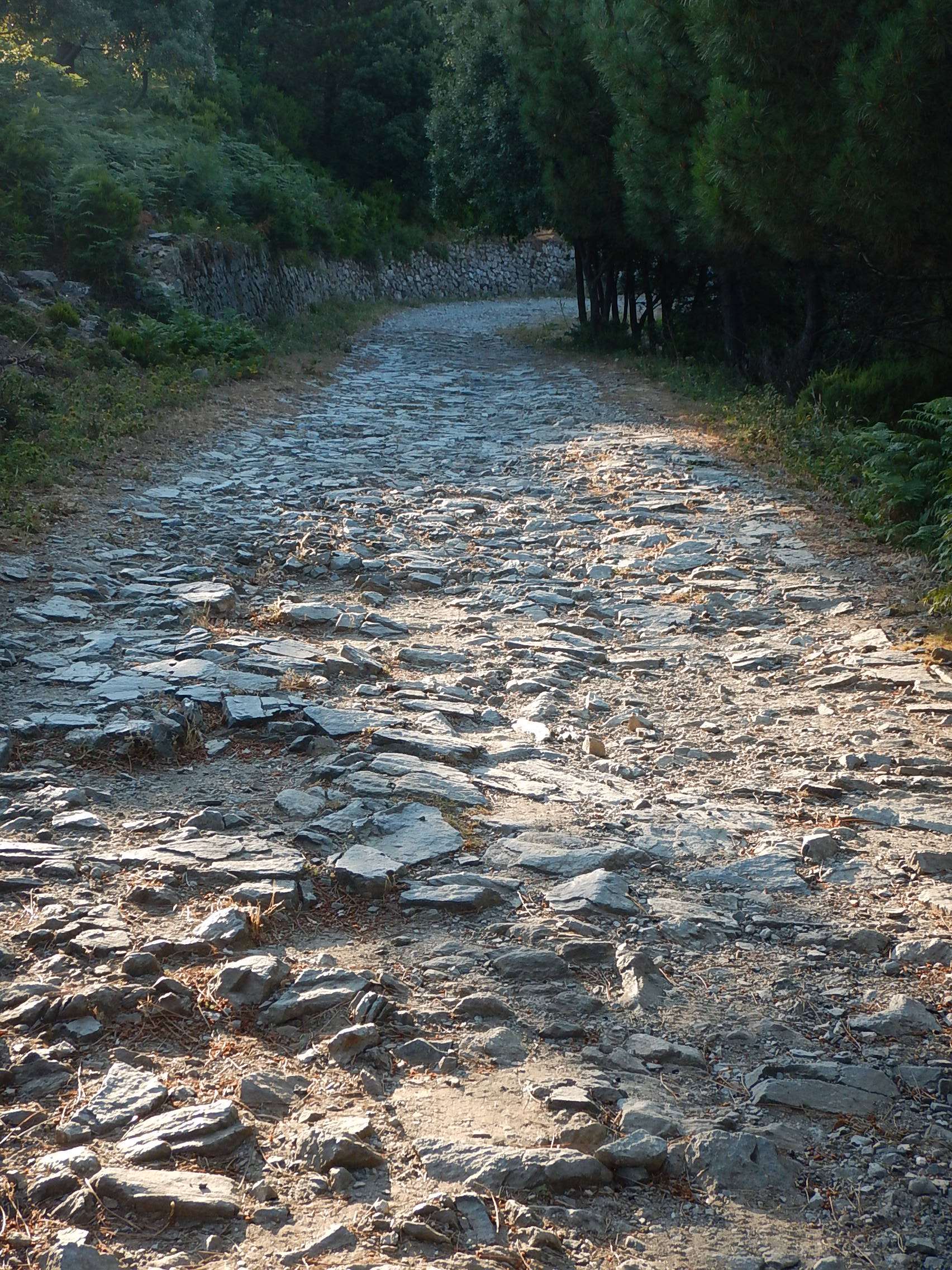 segment in stones of the dorsale peloritana, sicily